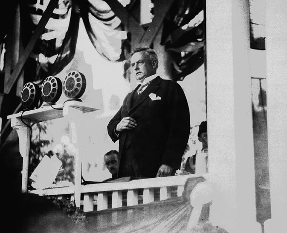 Hon. Leonard P. D. Tilley, Minister without Portfolio, New Brunswick, speaking during the Diamond Jubilee of Confederation celebrations on Parliament Hill, July 1, 1927